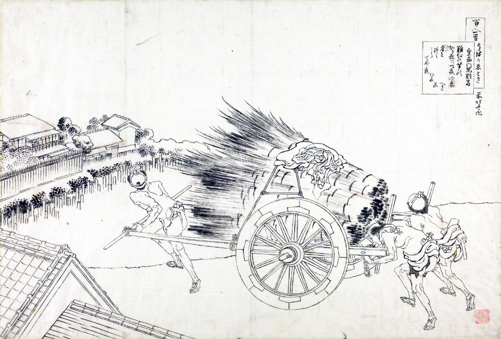 He drew cut Reed ,read by Kohka-monin-bettoh